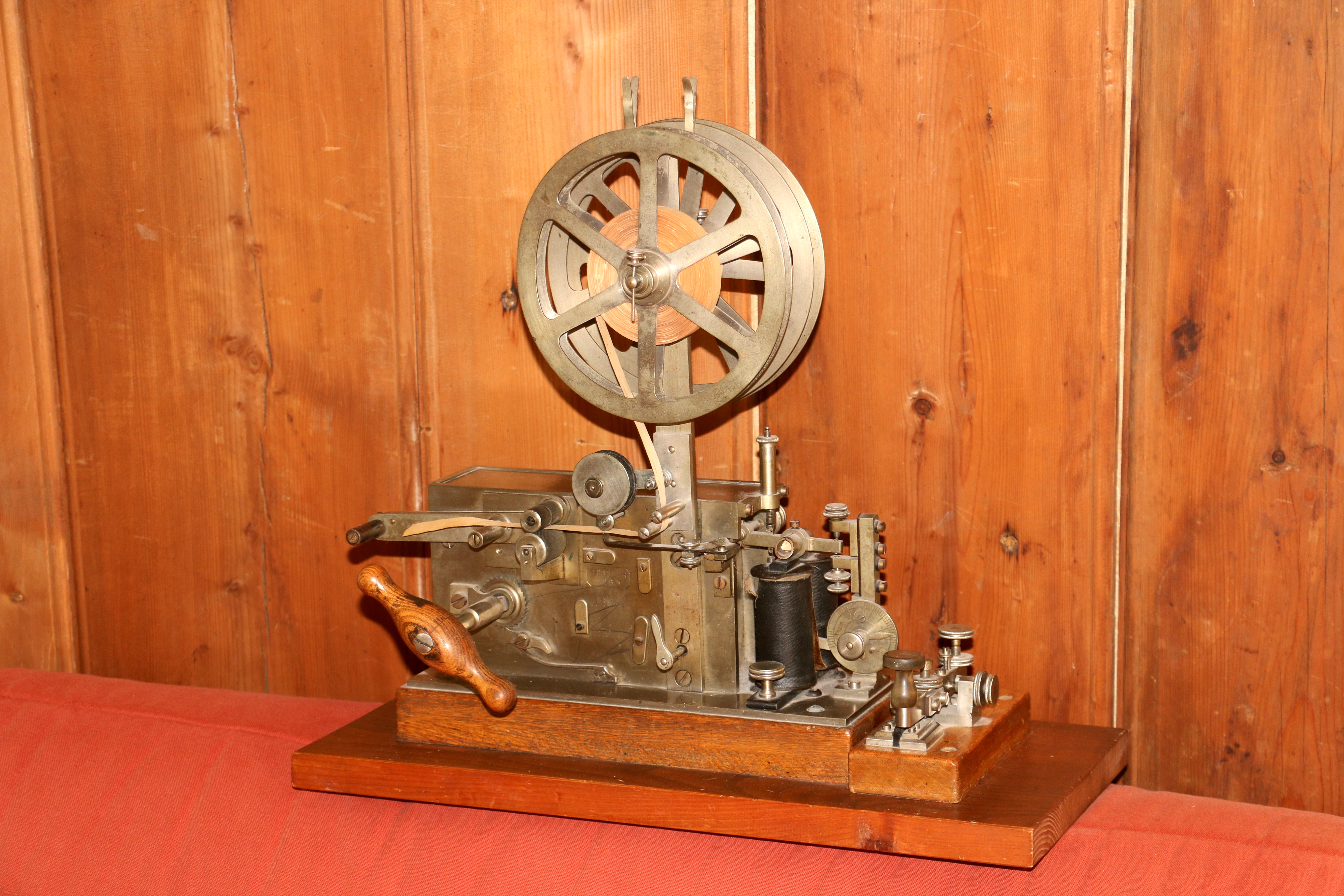 Telegraph from G.Hasler used by Gotthard railway